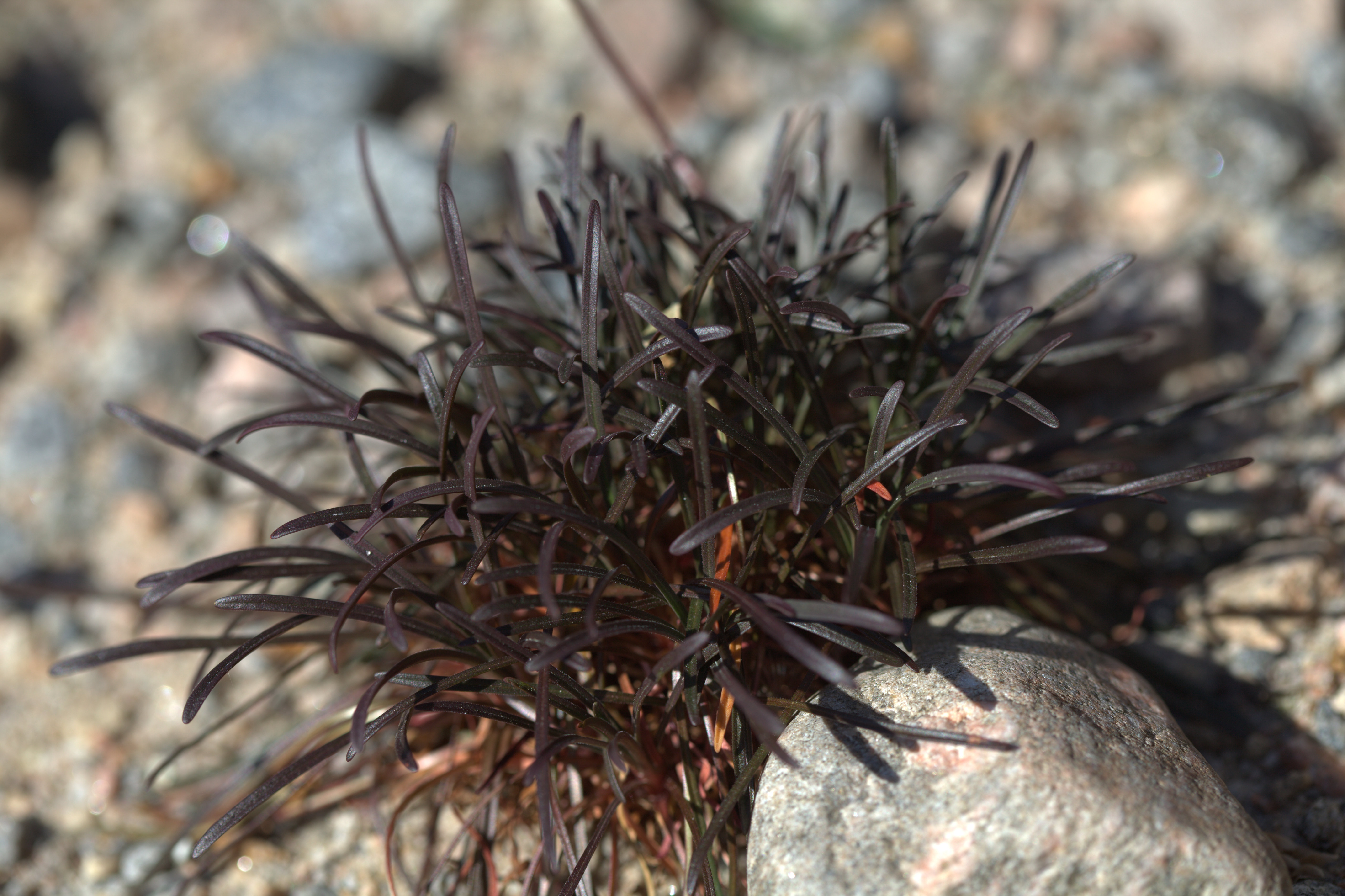 Photo taken at Gothenburg botanical garden. Specimen id: 2014-1000 p G Plant collected in 2014 from a garden in Hessenhof.